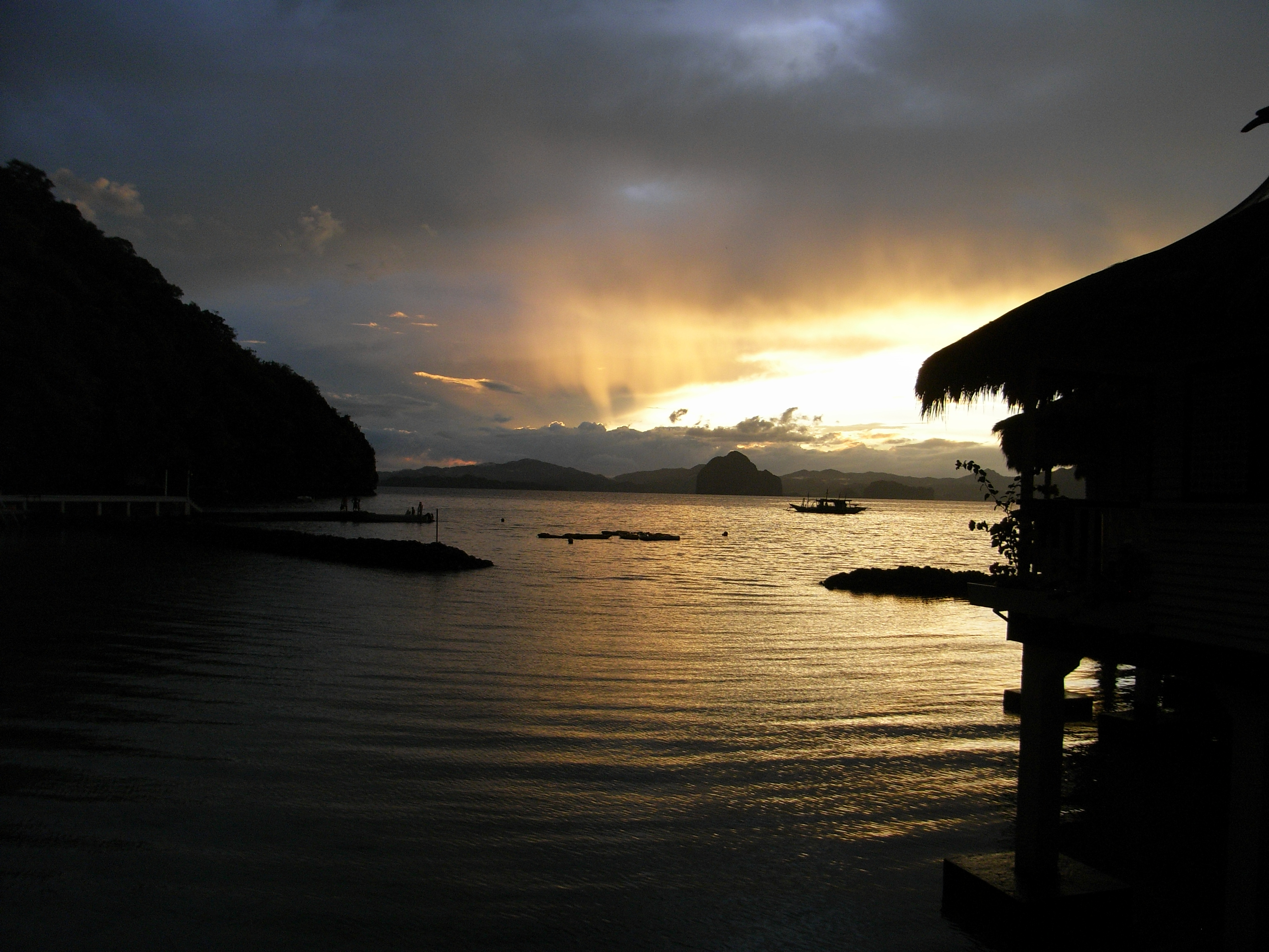 Sunrise from the resort at Miniloc island, Palawan.